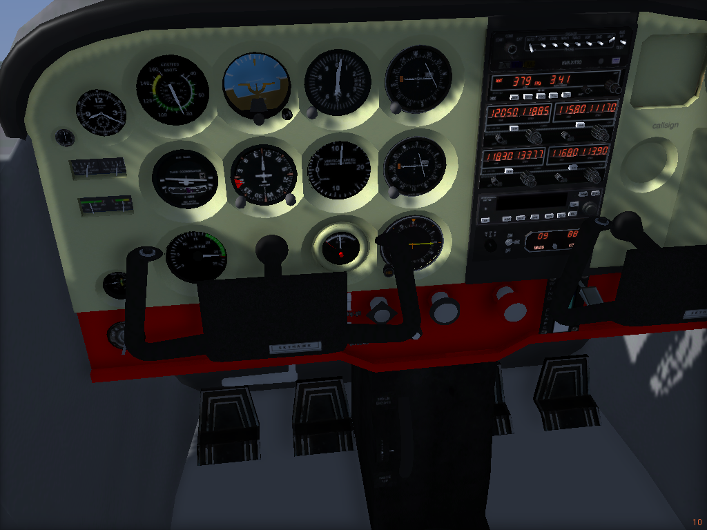 Screenshot of Cessna C-172p cockpit rendering, in free software (GPL), FlightGear Flight Simulator, with the Rembrandt render engine, in January 2014